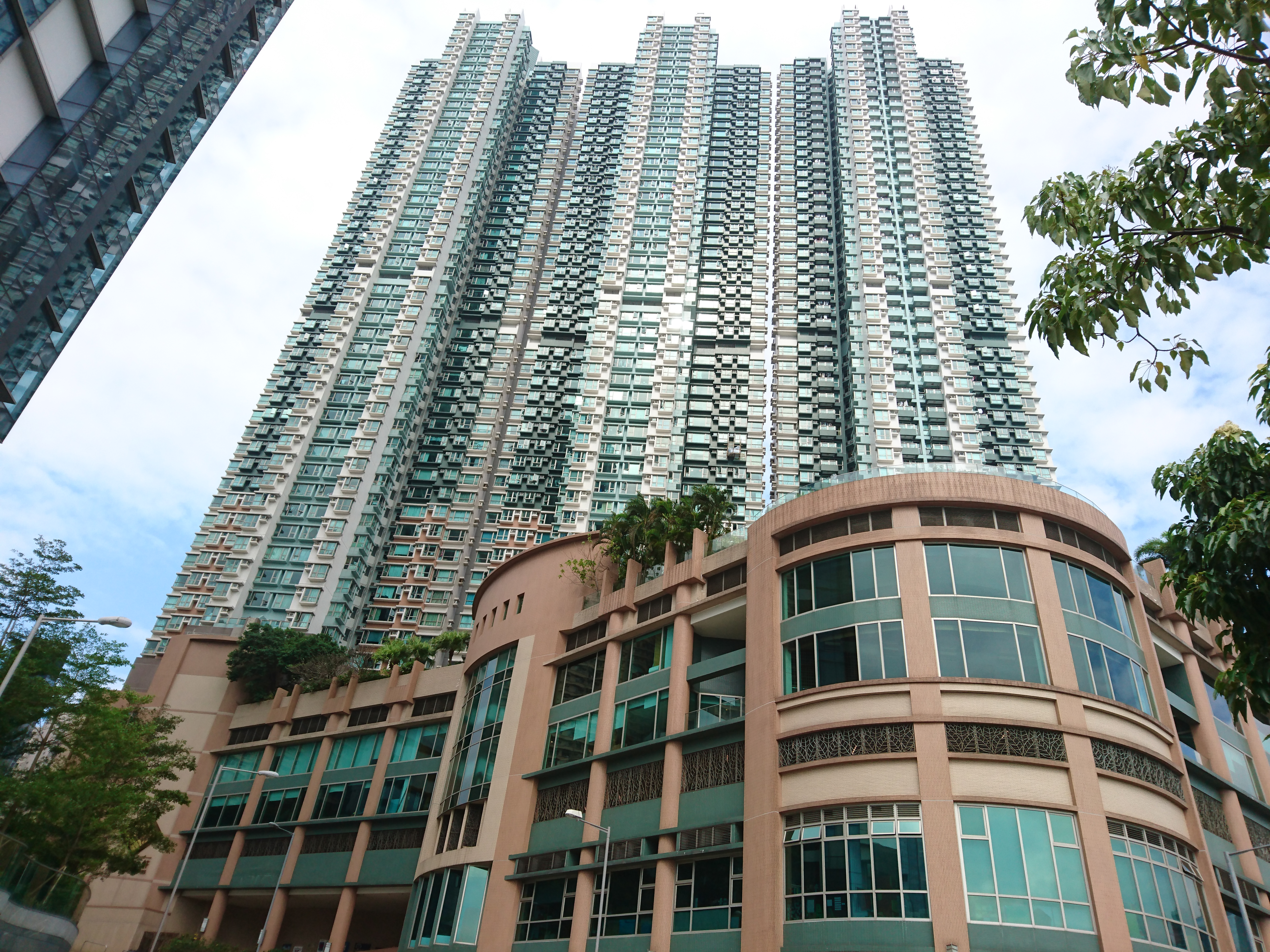 Sham Wan Towers viewed from Ap Lei Chau Praya Road